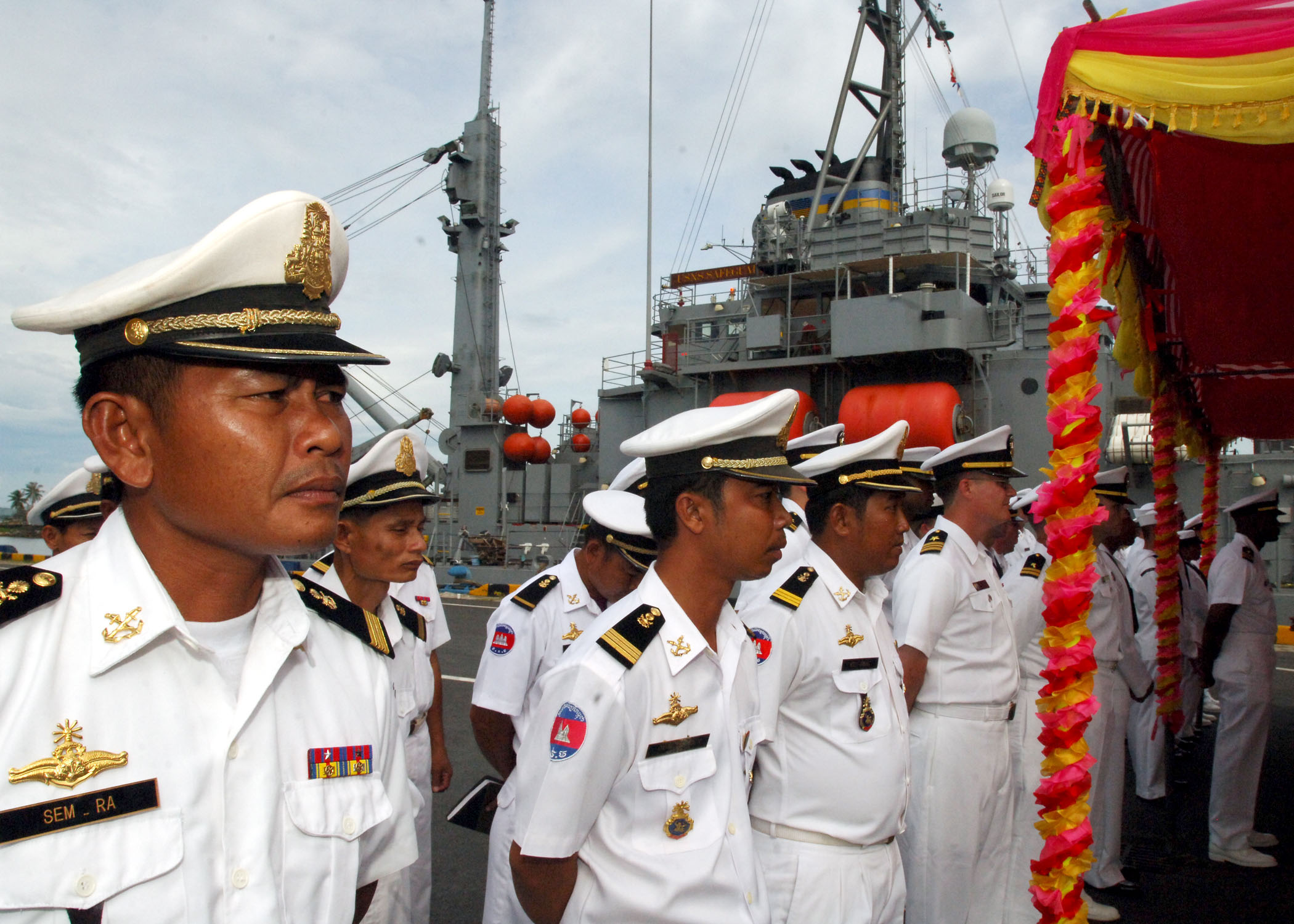 SIHANOUKVILLE, Cambodia (Oct. 20, 2011) Royal Cambodian Navy officers stand in ranks with U.S. Navy members during the opening ceremonies for Cooperation Afloat Readiness and Training (CARAT) Cambodia 2011. CARAT is a series of bilateral exercises held annually in Southeast Asia to strengthen relationships and enhance force readiness. (U.S. Navy photo by Mass Communication Specialist 1st Class Robert Clowney/Released)